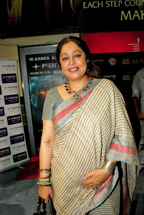 Kirron Kher at the unveiling of first look of Saas, Bahu aur Sensex